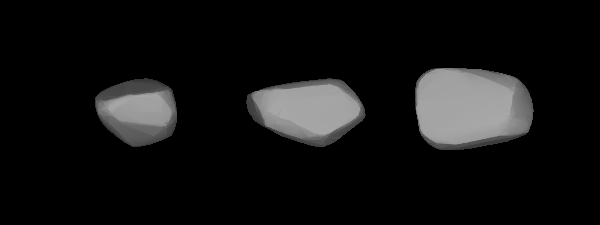 A three-dimensional model of 1682 Karel that was computed using light curve inversion techniques.